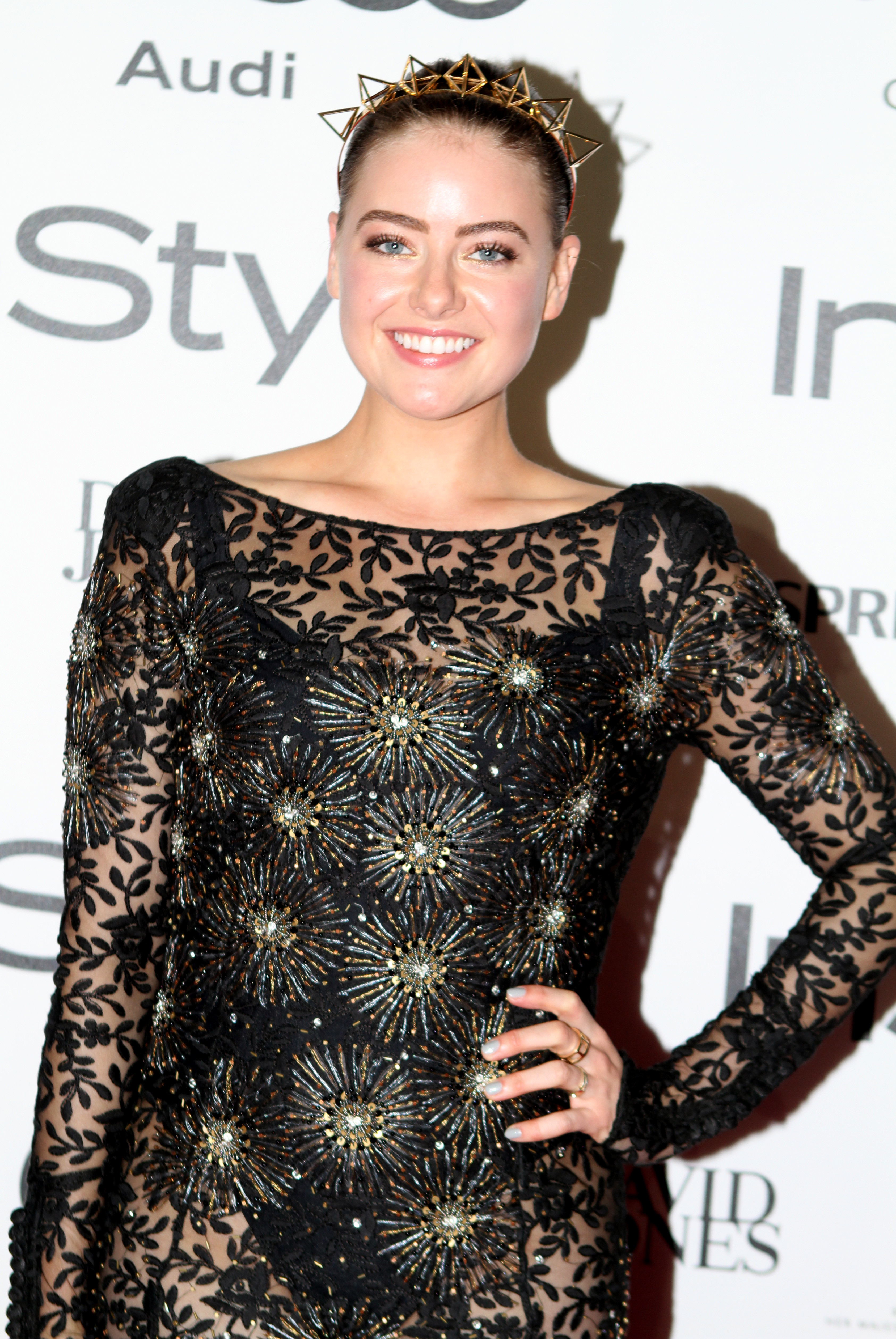 Instyle Awards 2015 InStyle and Audi Host Seventh Annual Woman Of Style Awards Red Carpet Gala Event